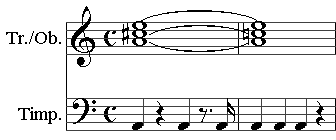 The "fate" motif from Gustav Mahler's Symphony No. 6. Image made with Sibelius and the GIMP and released into the public domain. Image:Gustav Mahler's Symphony No. 6